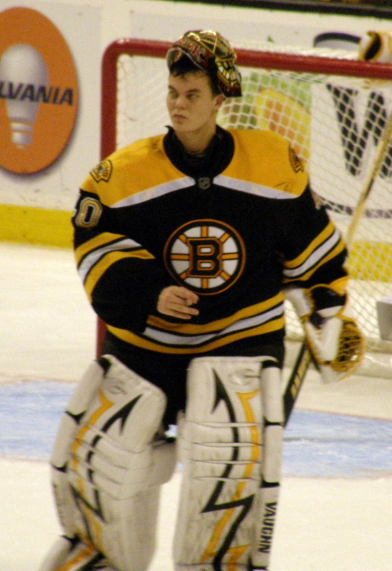 NHL Goaltender Tuukka Rask of the Boston Bruins with mask off